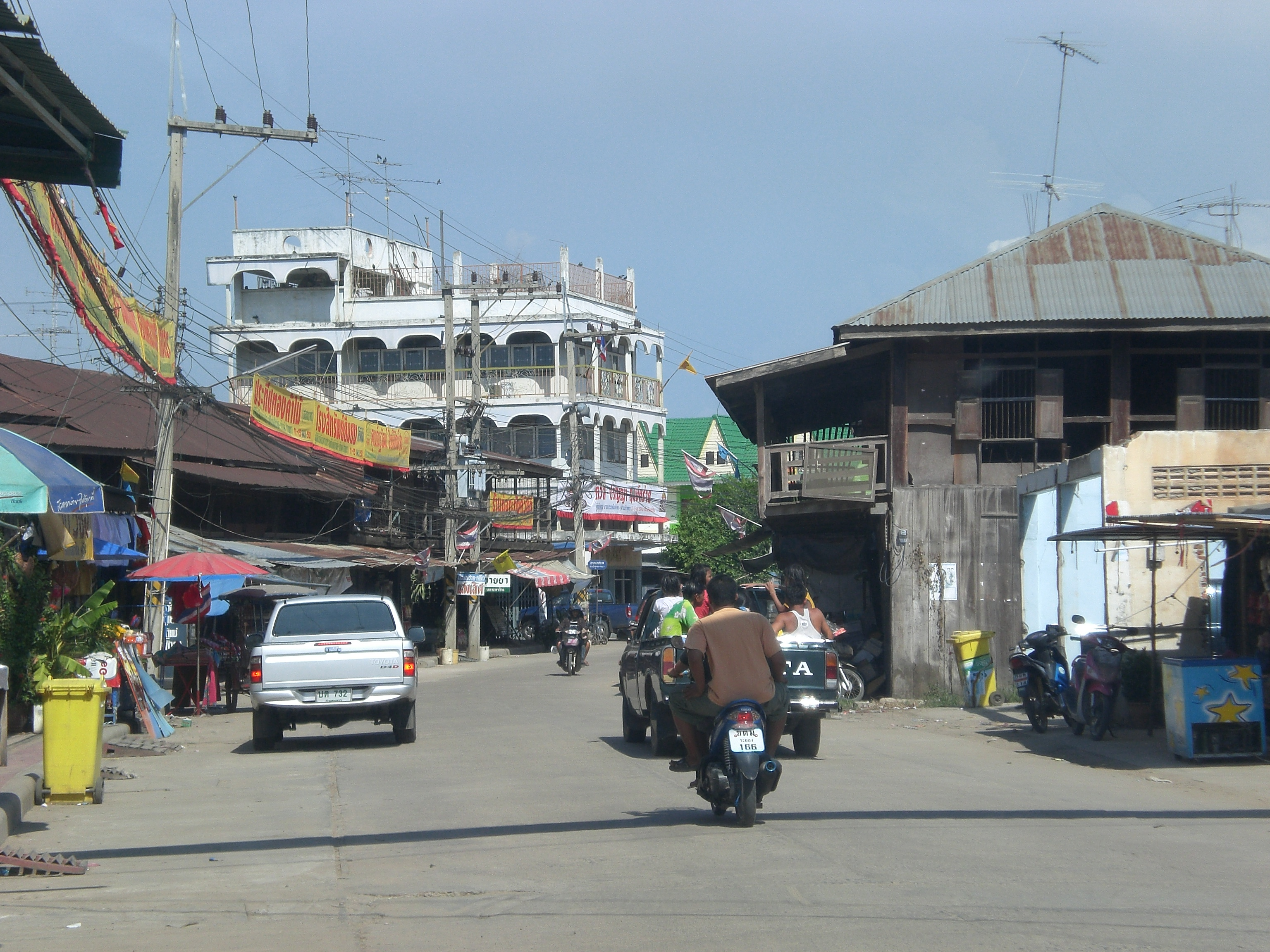 Shopping street near Mainstreet and Market Hall in Bueng Samakkhi, Thailand